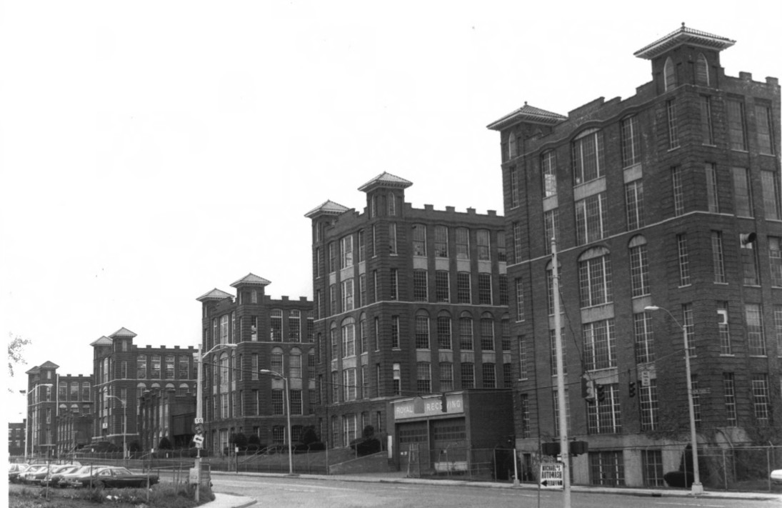 Royal Typewriter Company Building, Hartford, Connecticut. Demolished.